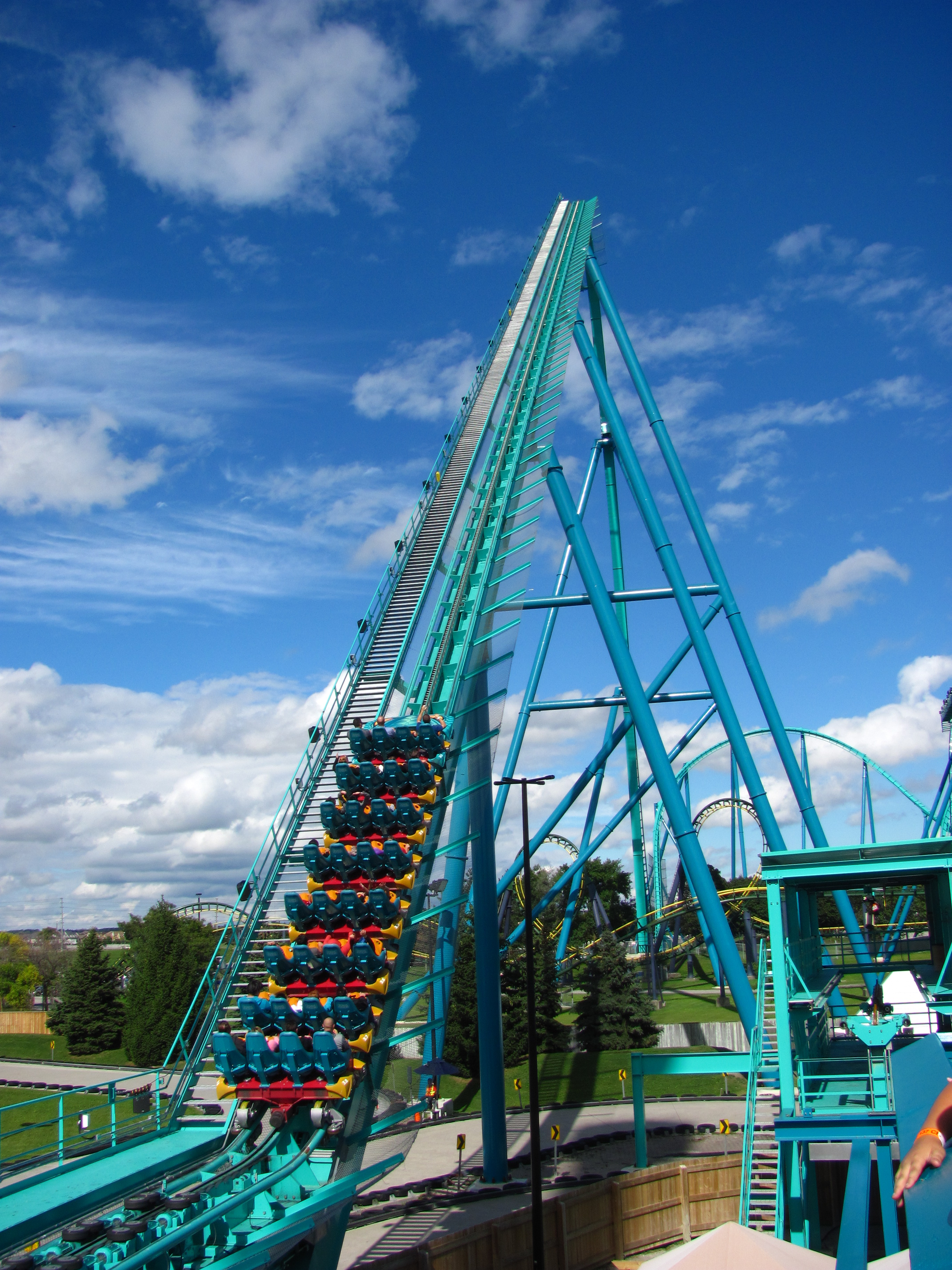 Canada's Wonderland 069